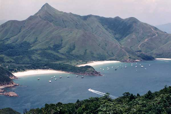 I took this picture myself in the 1990s. It is hereby entered into the public domain and I release all rights. (Tithon 14:53, 17 March 2006 (UTC))